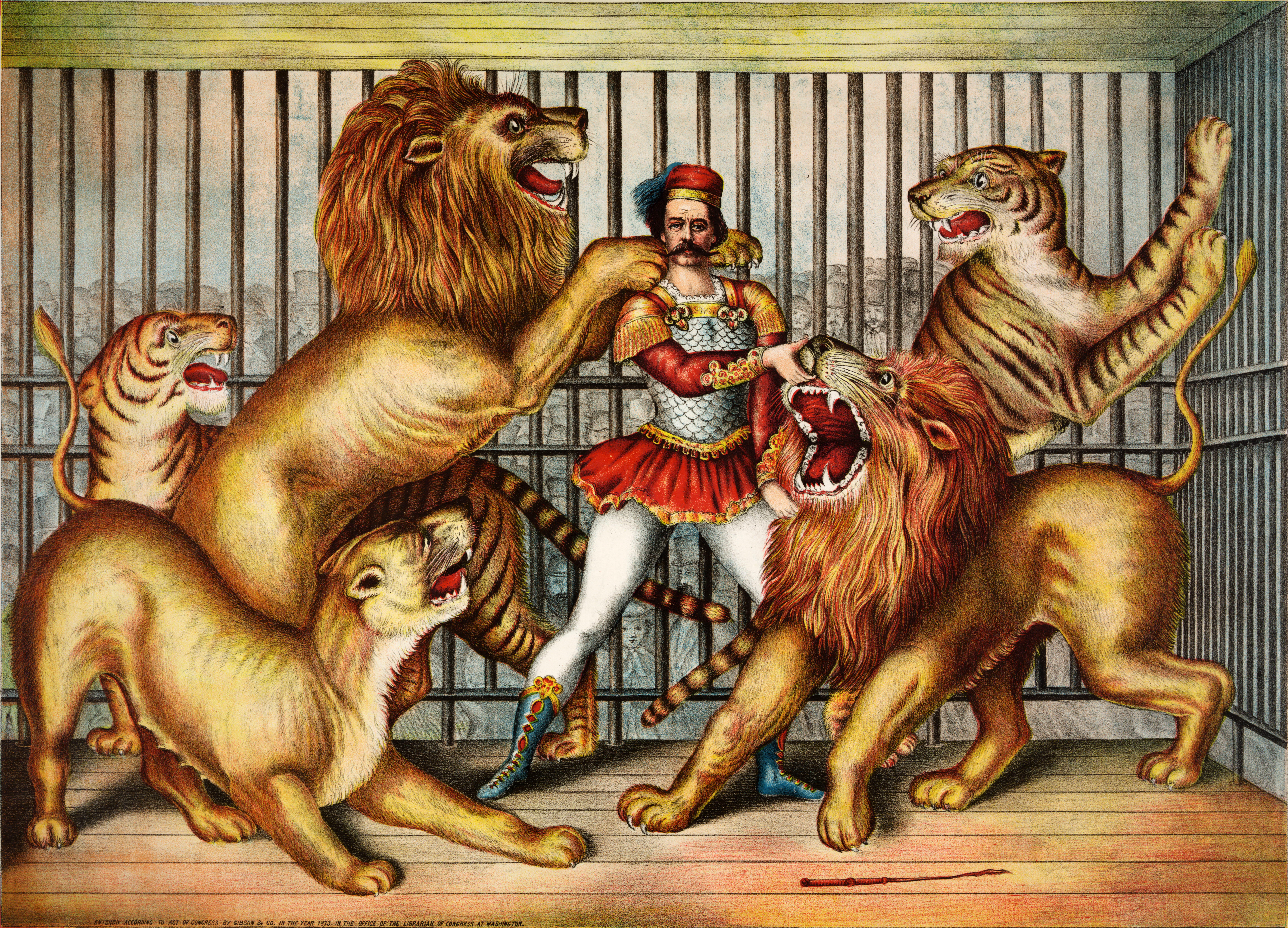 Lion tamer Lion tamer in cage with two lions, a lioness, and two tigers.